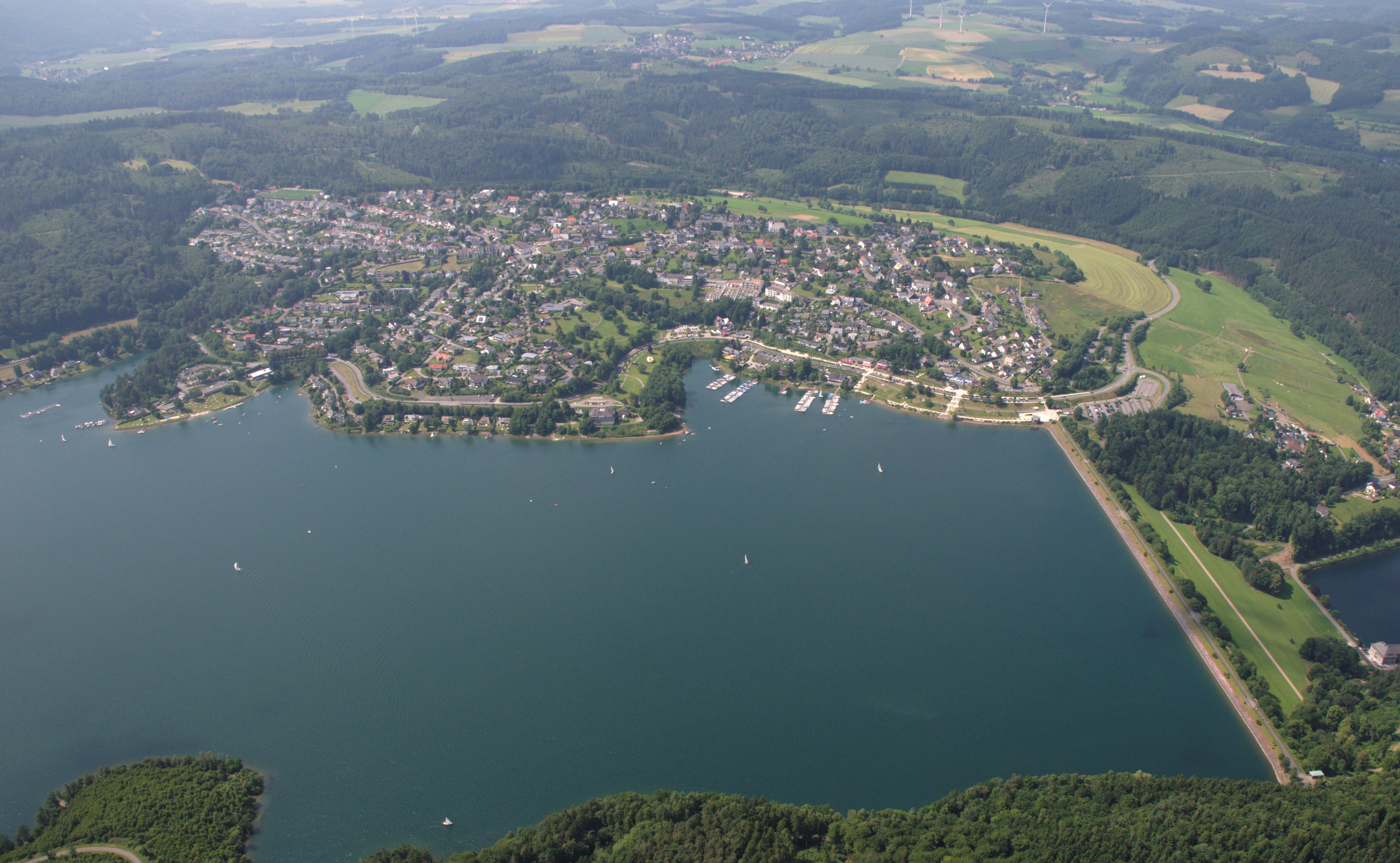 Fotoflug Sauerland-Ost: Sundern-Langscheid, Sorpesee. The making of this document was supported by the Community-Budget of Wikimedia Germany.